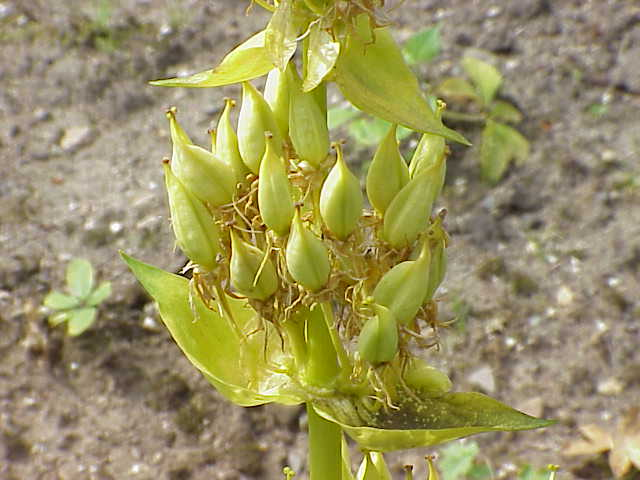 Species: Gentiana lutea Family: Gentianaceae Image No. 1